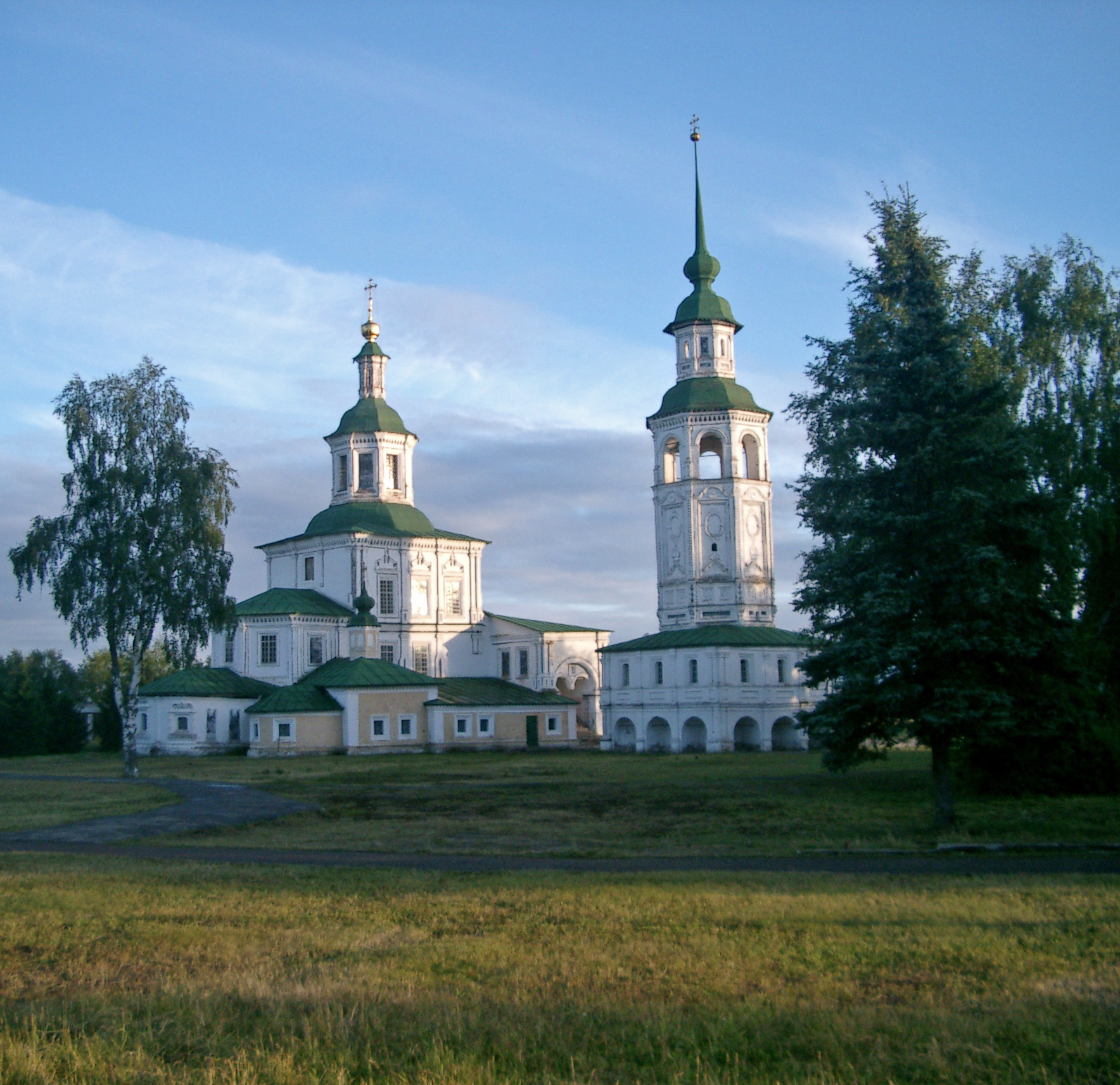 St. Nicholas Church and Bell-tower, Veliky Ustyug. Architectural monument of federal significance #3500002179 (ensemble), #3500002180 (church), #3500002181 (bell-tower)